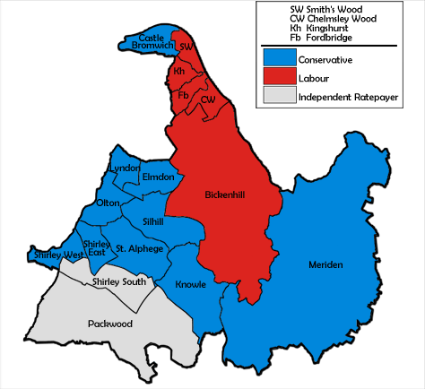 Ward map of Solihull Council with political colouring for the 1984 election.